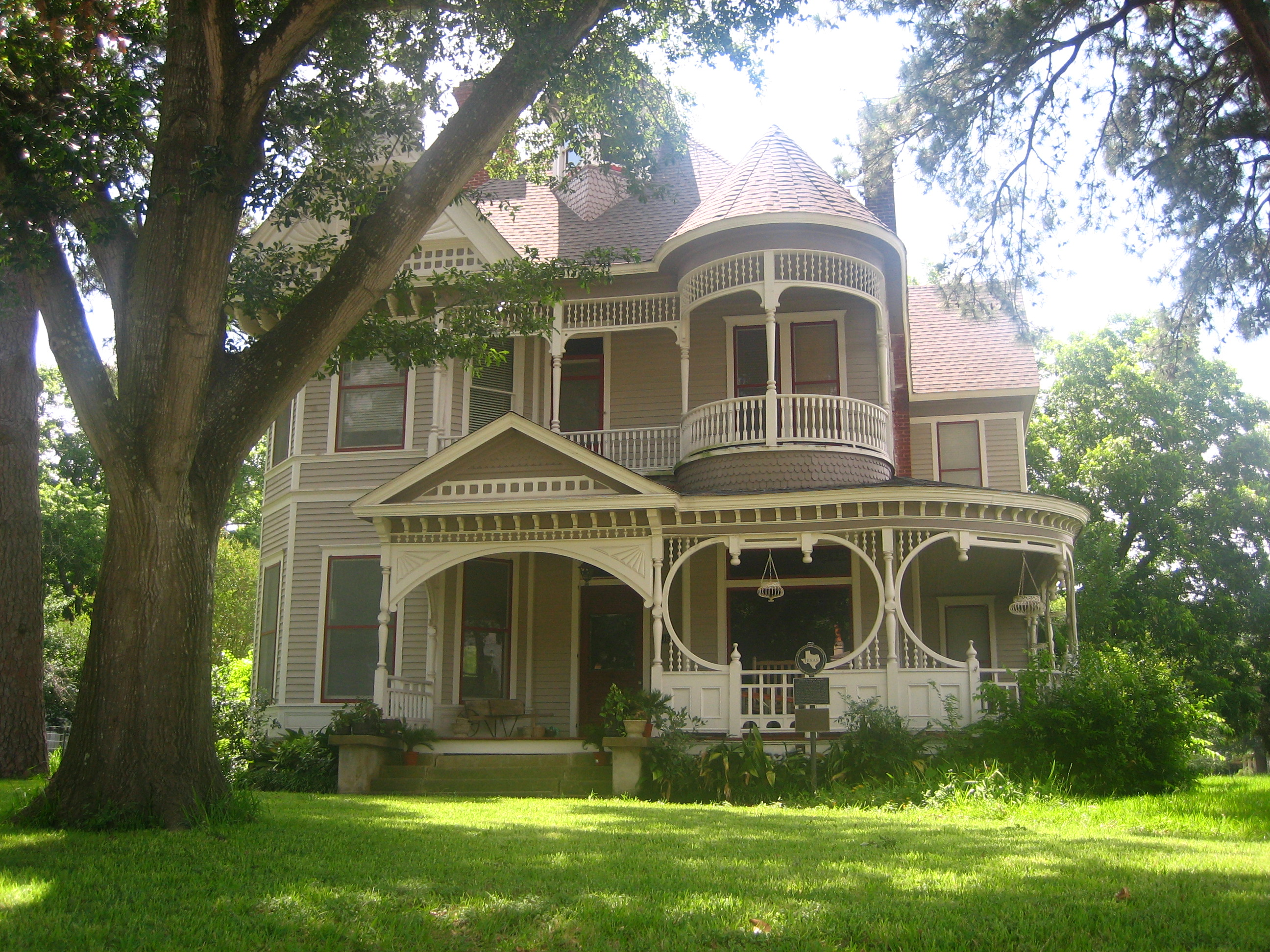 Historic Reeves-Womack House in Caldwell, TX. Recorded Texas Historic Landmark - 1983. NRHP - 1993-02-04